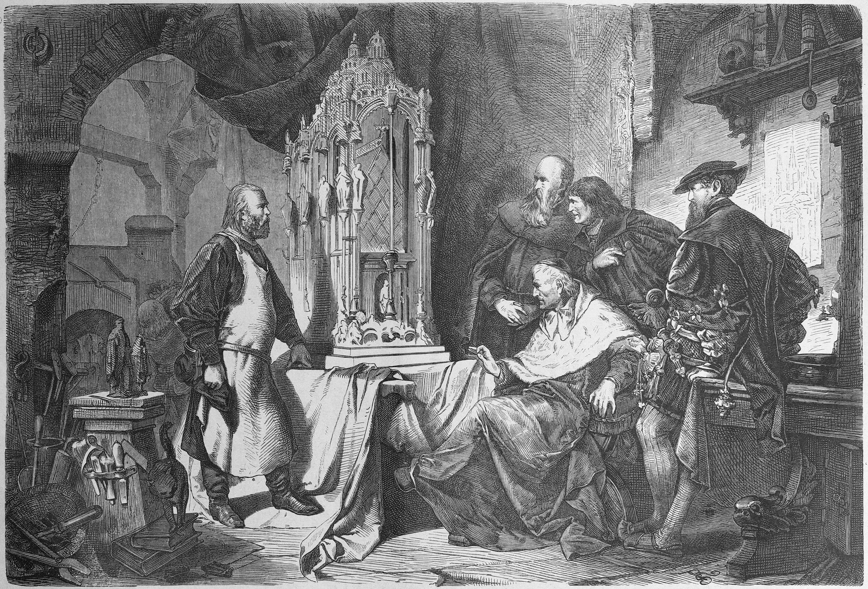 caption: "In Peter Vischer’s Gießhütte zu Nürnberg. Originalzeichnung von Rudolph Seitz."